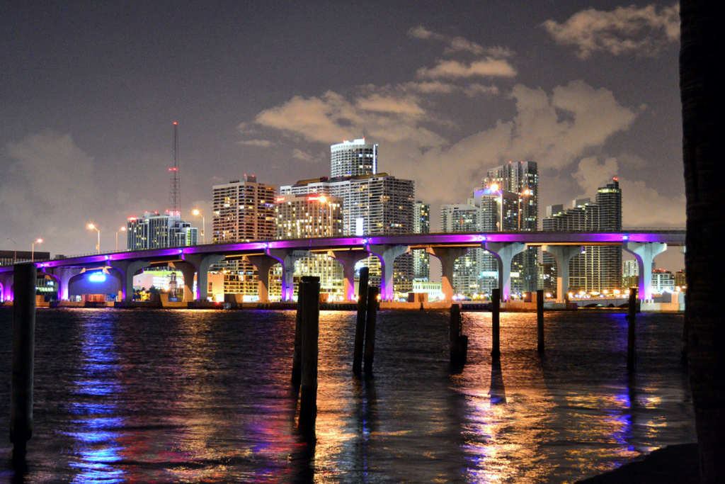 The skyline of Omni, Miami, at night from Watson Island.